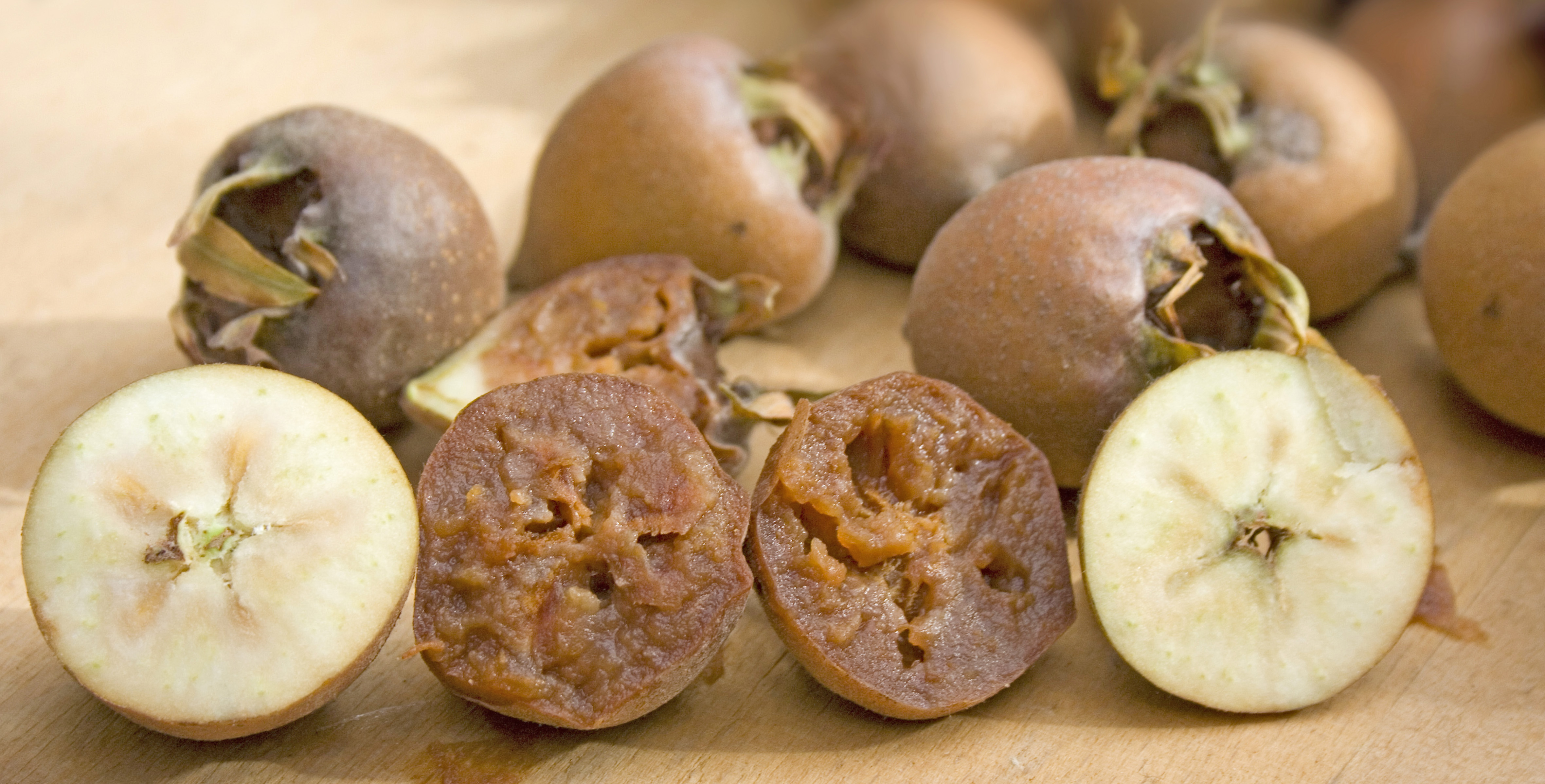 Mespilus germanica - semi-mature and fully ripe fruit, cross section.